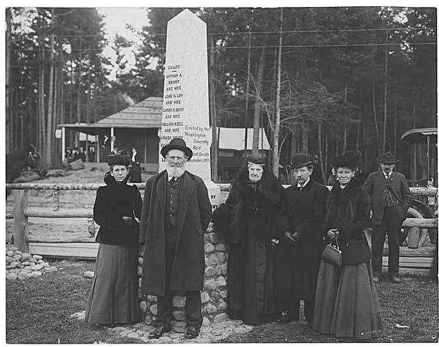 Handwritten on verso: Left to right: Lenora Denny, Carson D. Boren, Mary A. Denny, Rolland H. Denny, Mary Low Sinclair, Nov. 13, 1905 . On monument in image: Erected by the Washington University State [Historical] Society, November, 1905 . Peiser 10088 Subjects (LCTGM): Monuments & memorials--Washington (State)--Seattle; West Seattle (Seattle, Wash.); Alki Point (Wash.)